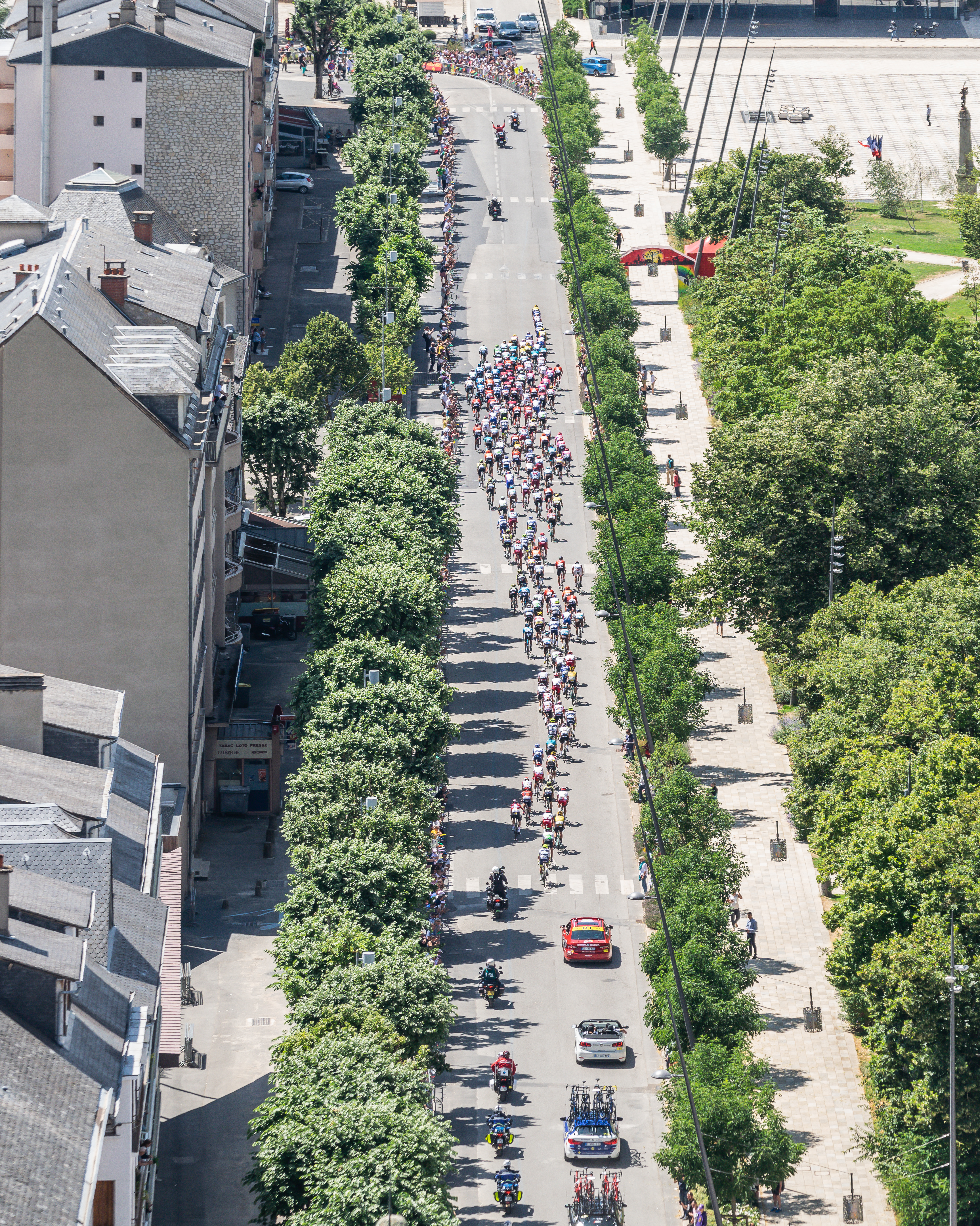 Tour de France 2019, stage 10: Peleton are passing Avenue Victor Hugo in Rodez, Aveyron, France